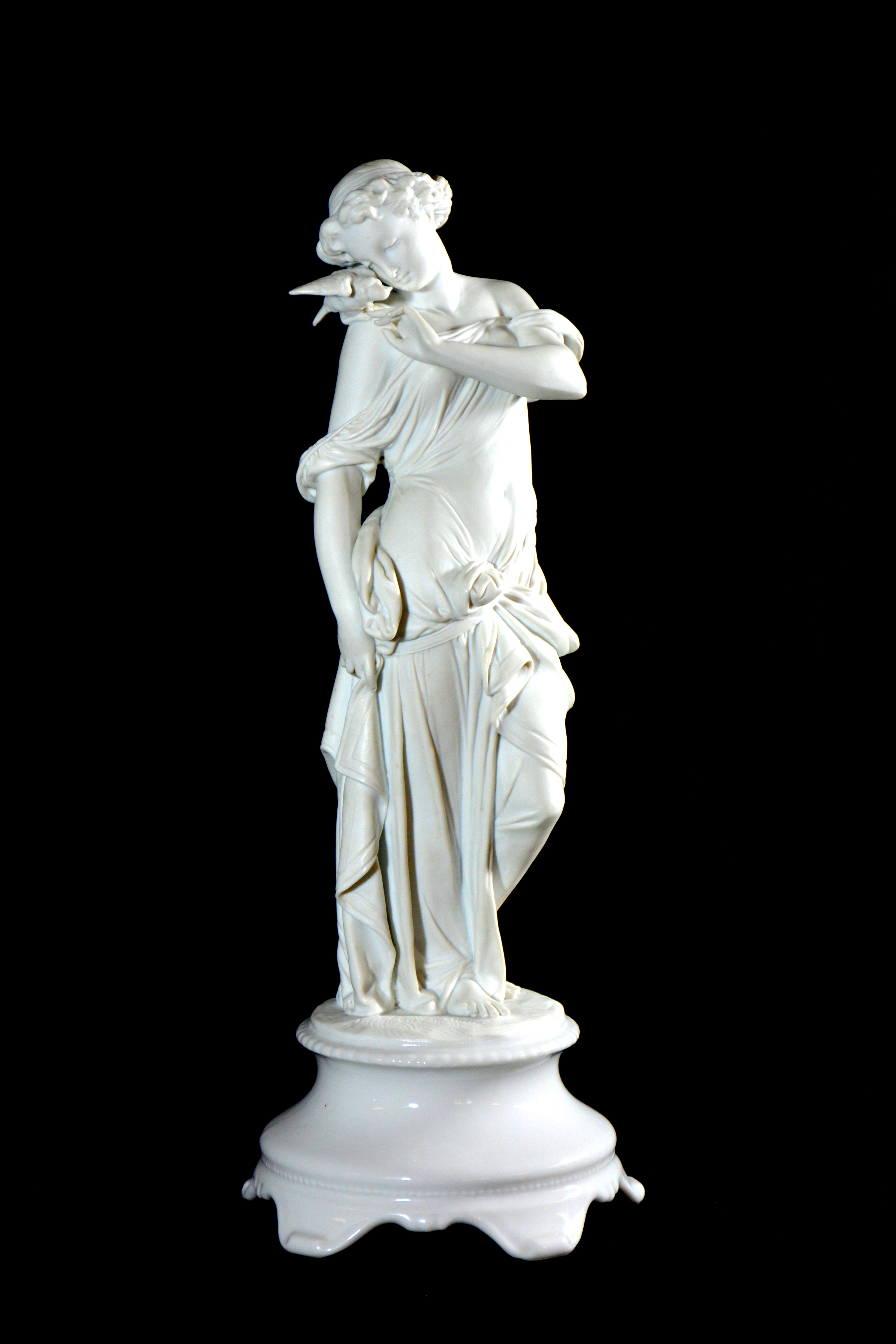 This is a file created at the museum: Ceramic Museum in Andenne